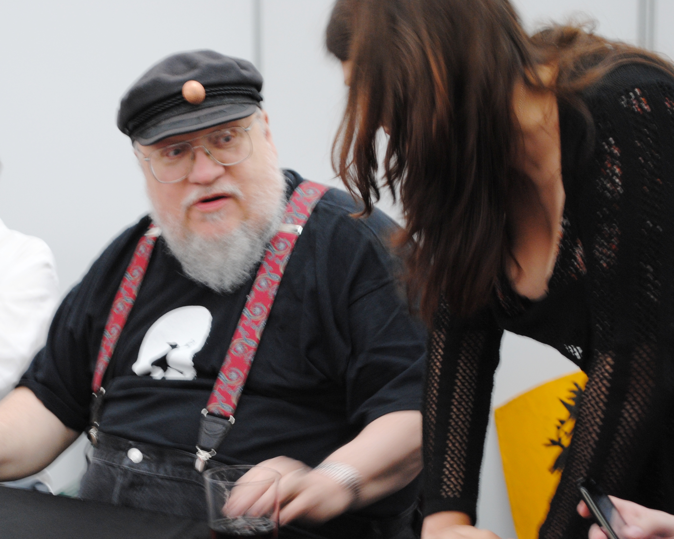 See title.